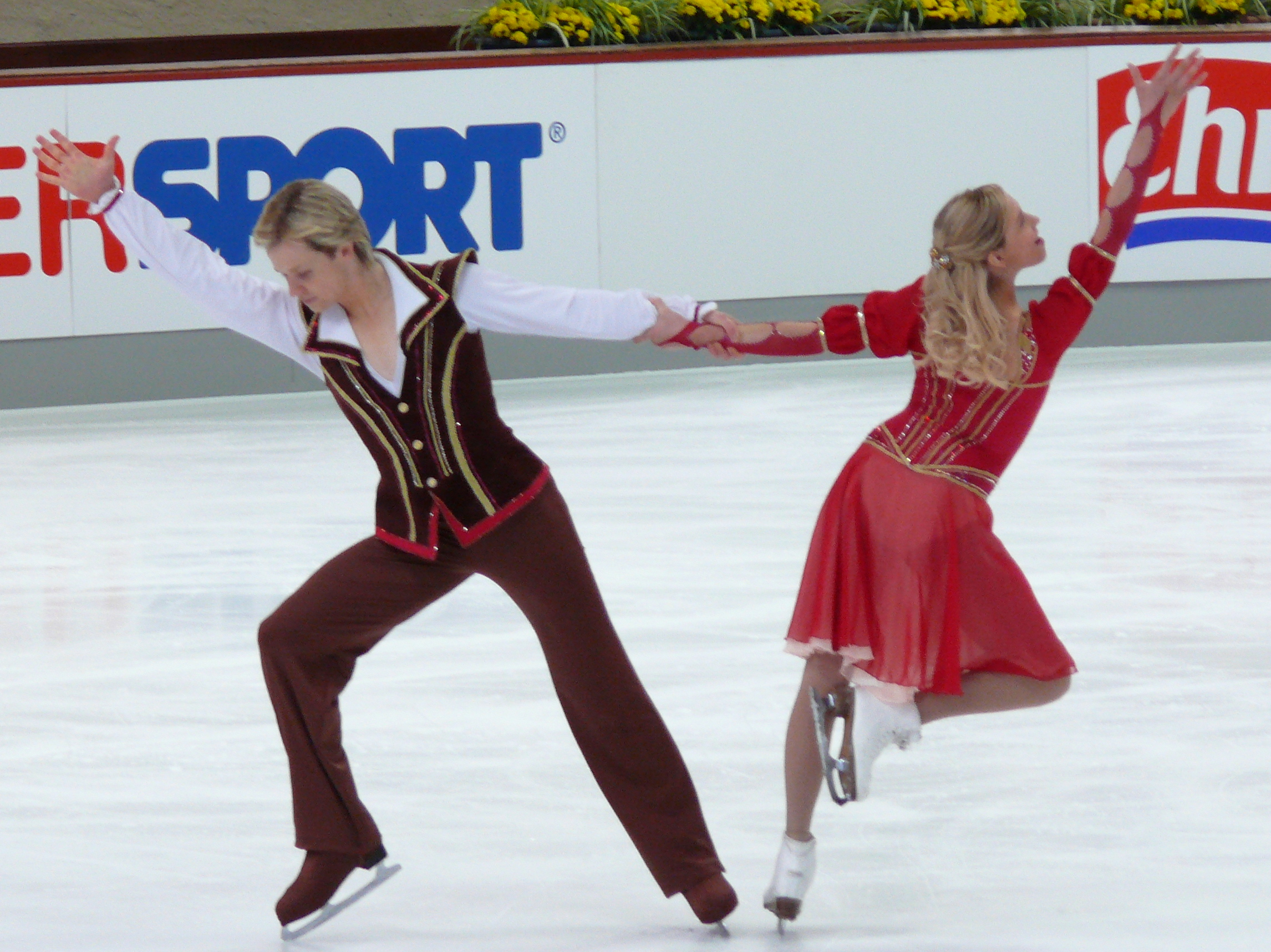 Christina Chitwood and Mark Hanretty (GBR) at their free dance at the Nebelhorntrophy in Oberstdorf, Germany